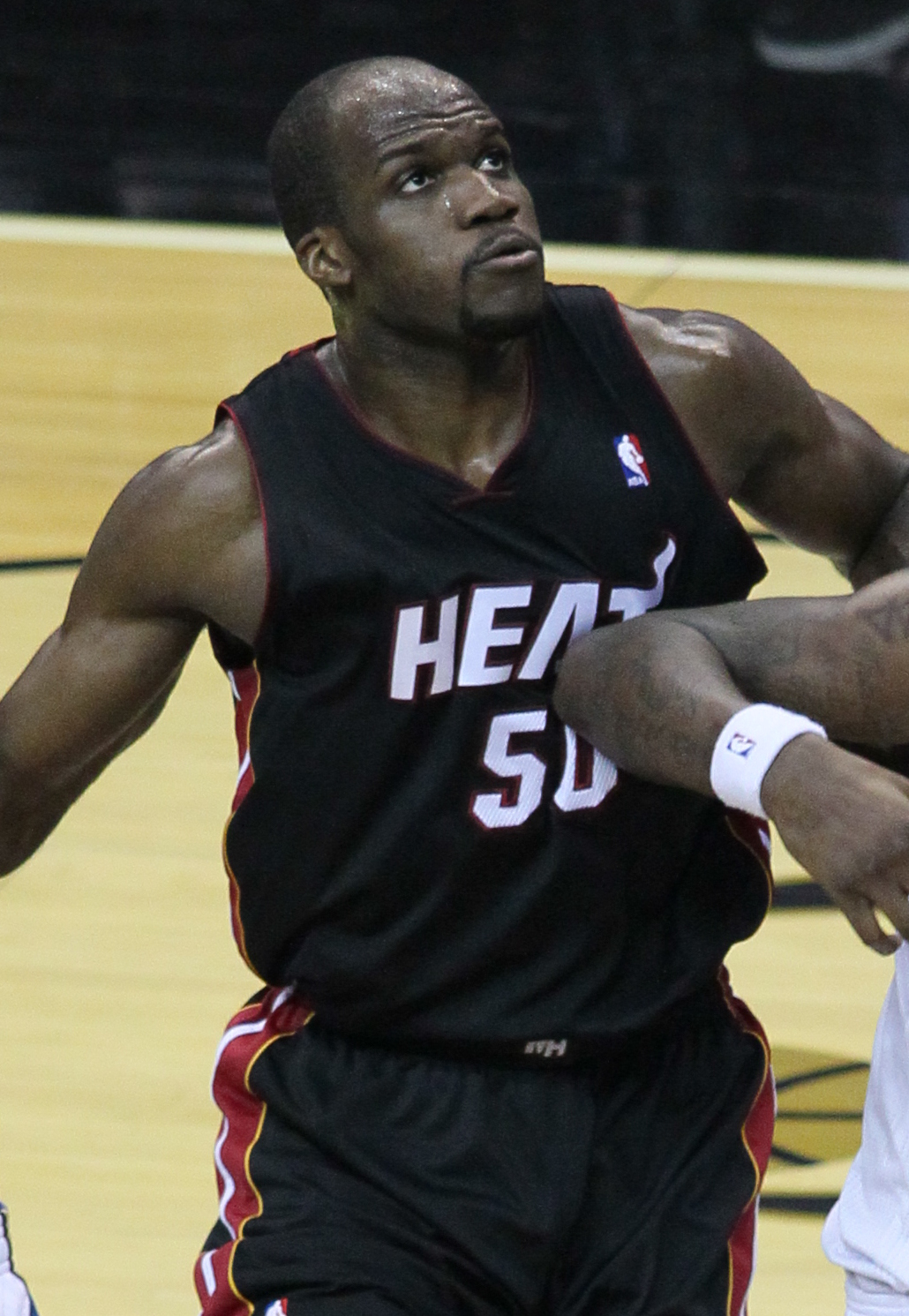 Washington Wizards v/s Miami Heat December 18, 2010 This file has been extracted from another file: Josh Howard, Joel Anthony and Andray Blatche.jpg